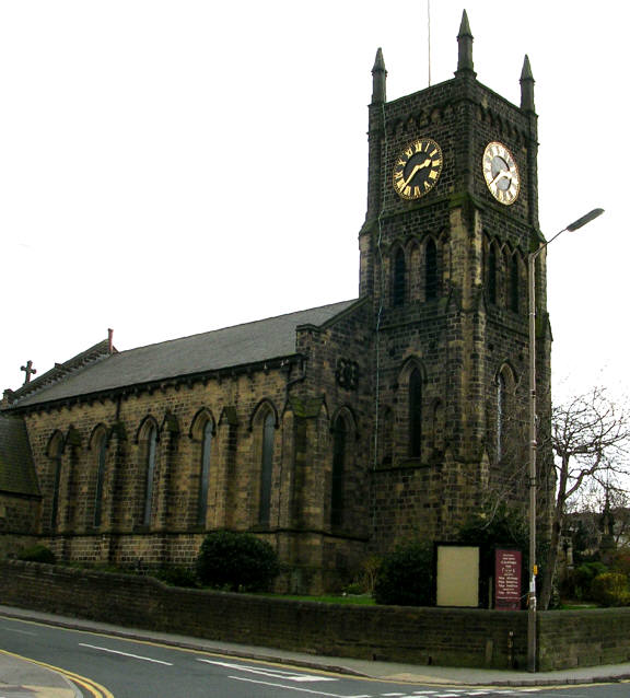 St John's Church - Town Street, Farsley, near to Farsley, Leeds, Great Britain.